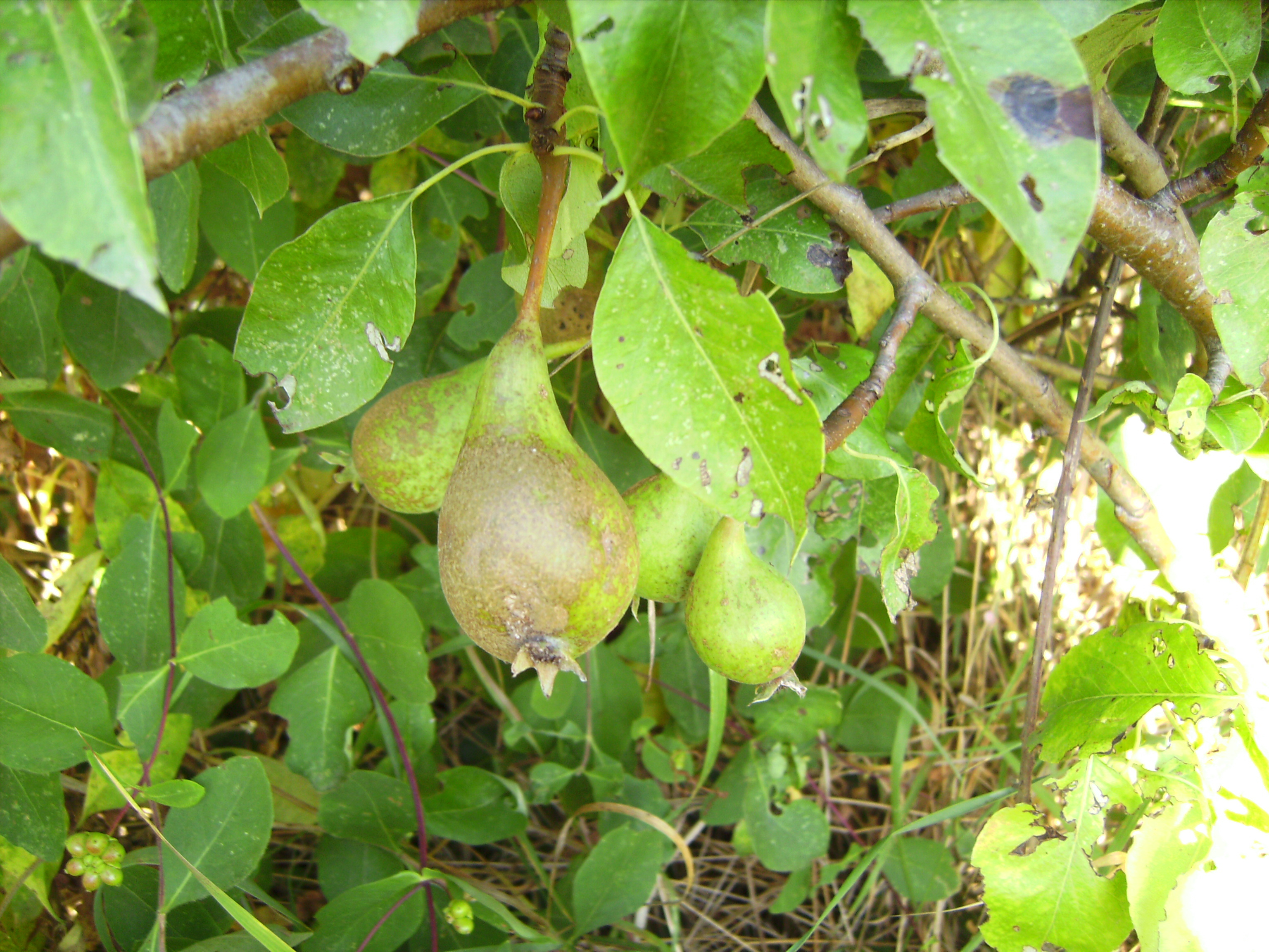 Pears on the tree, cultivar Conference, Castelltallat, Catalonia